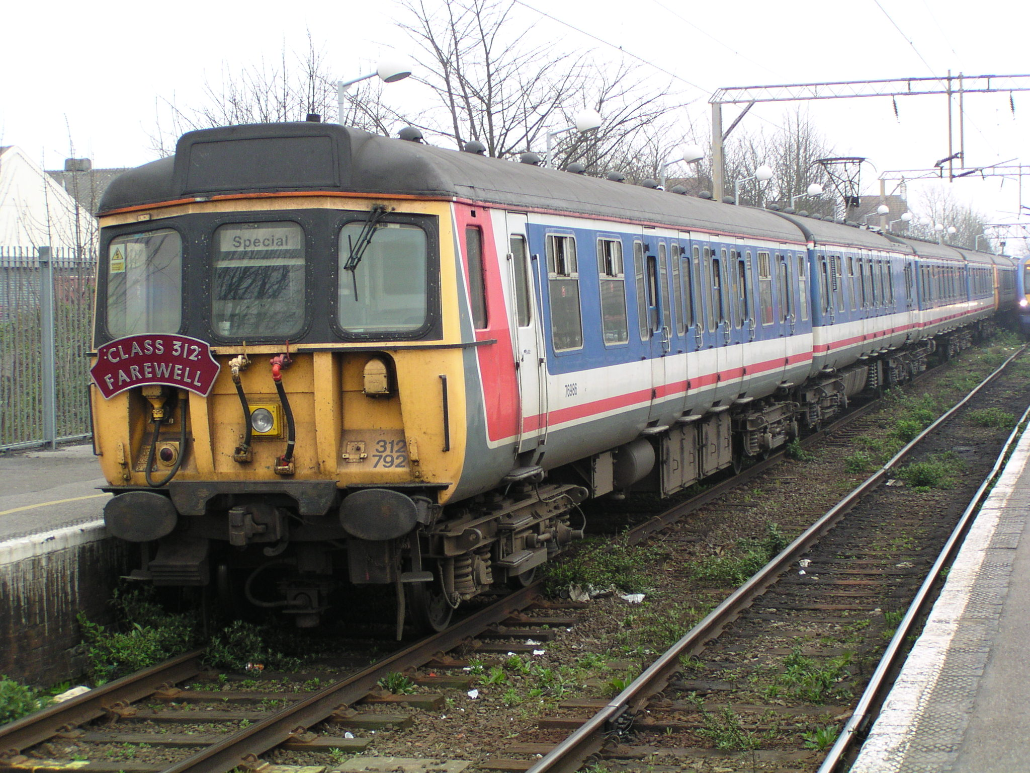 BR Class 312, no. 312792 at Shoeburyness on 29th March 2003. Image by Phil Scott (Our Phellap)